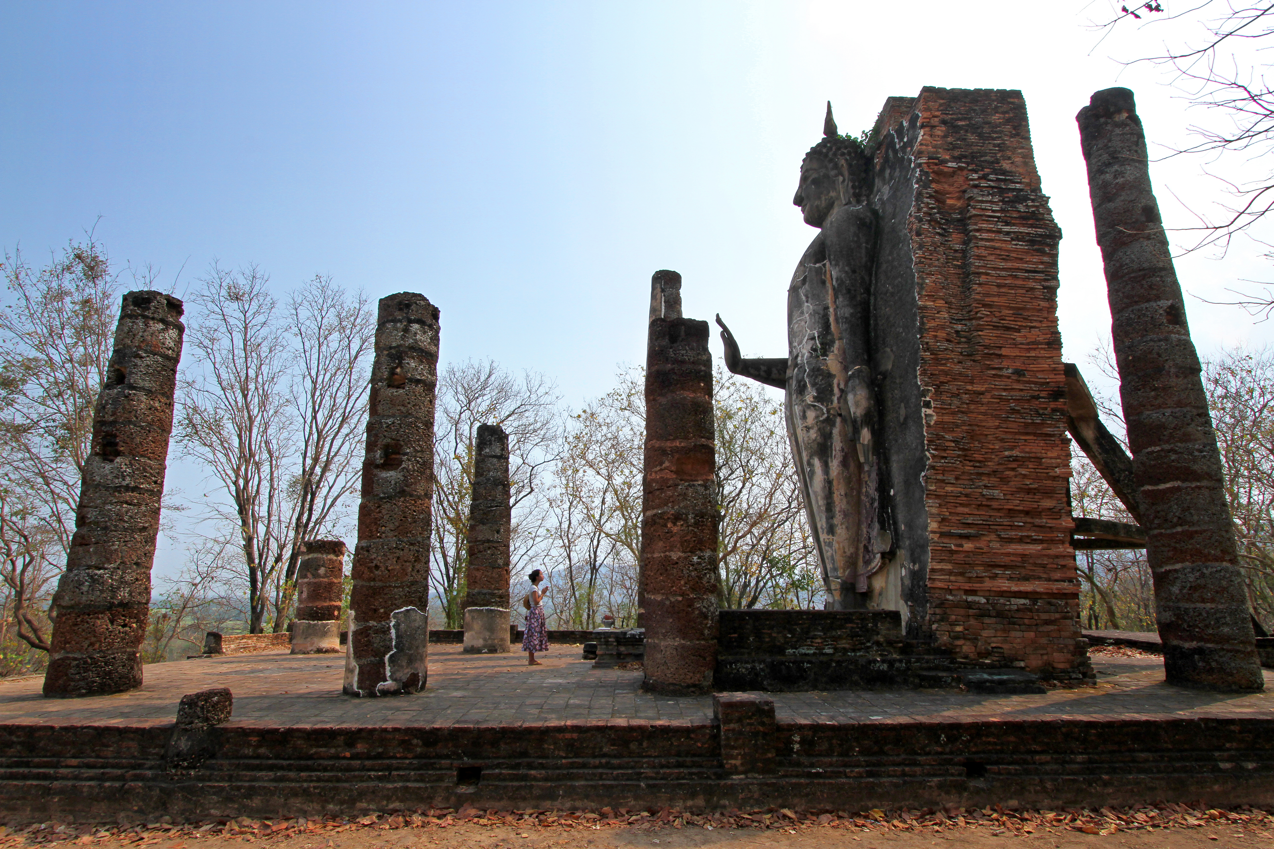 วัดสะพานหิน